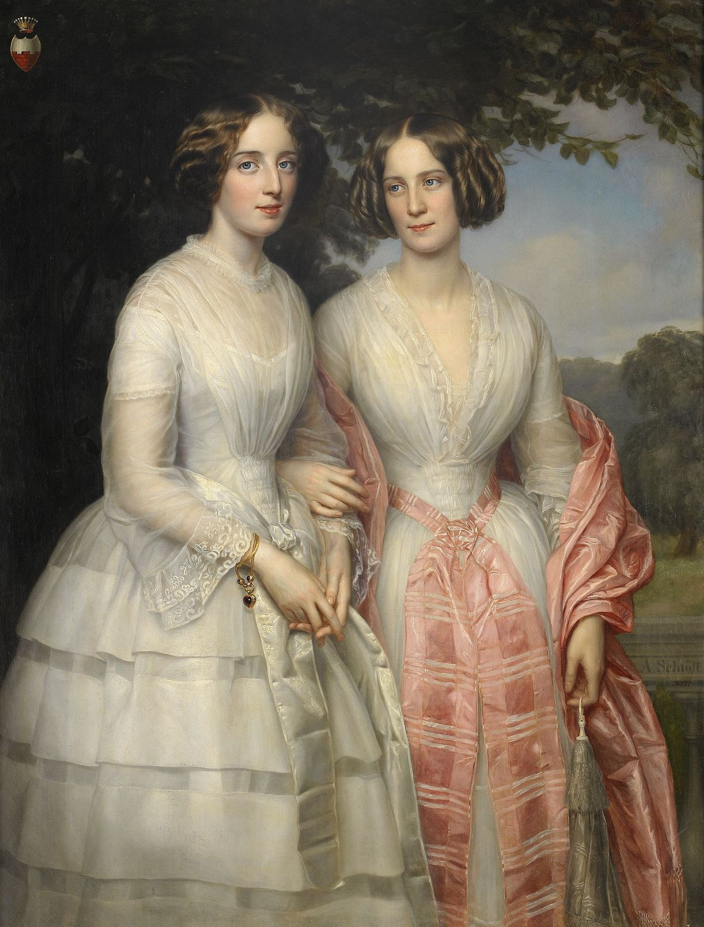 The Reventlow Sisters